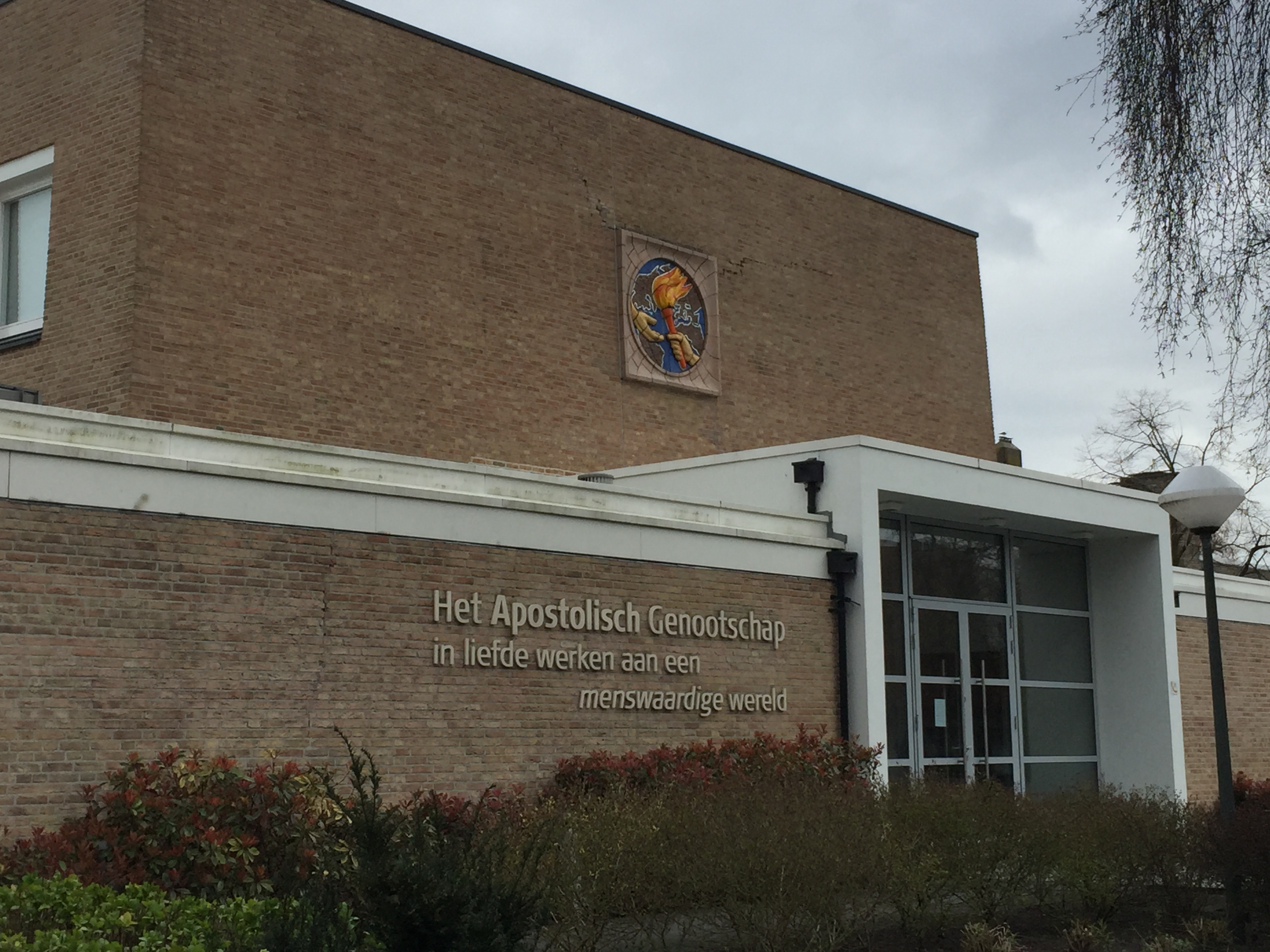 Apostolic Church, Leiden, 2020